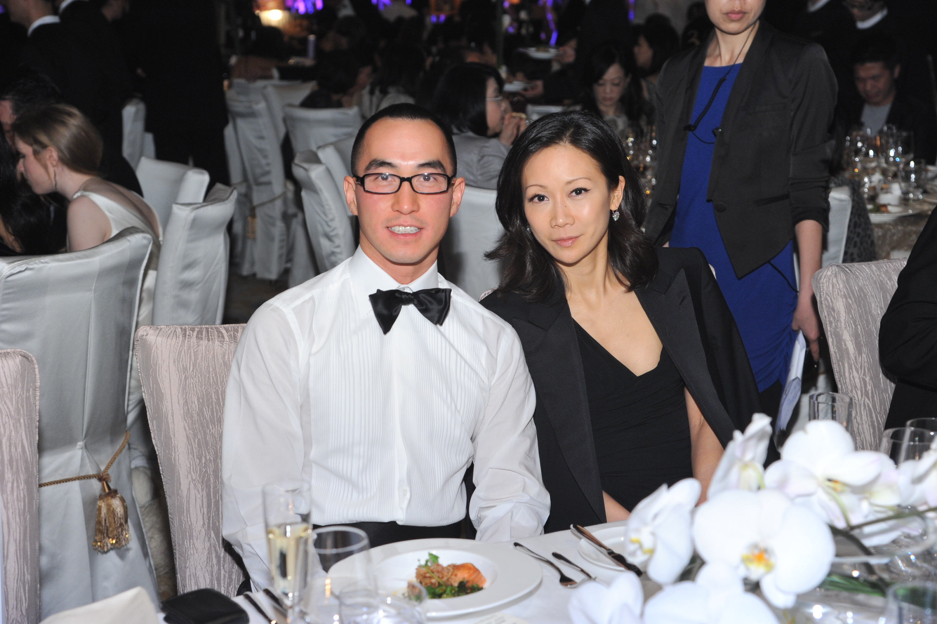 Extravagant Simplicity Crossroads Foundation Fundraising Gala 2011